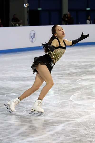 Photos – Junior World Championships 2018 – Ladies (Young YOU KOR – 9th Place)